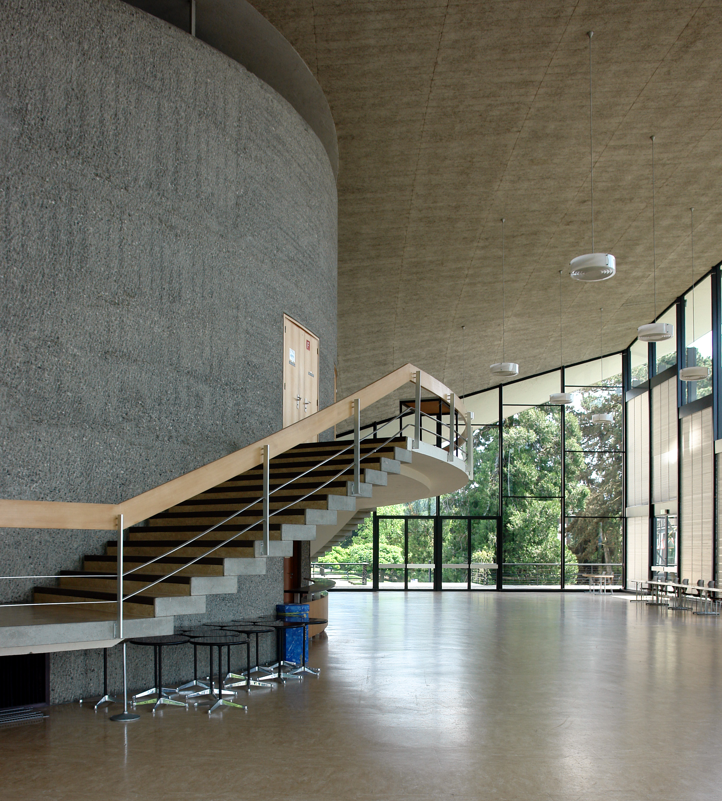 Auditorium of the Ecole Polytechnique Féderale de Lausanne, Foyer towards the lake